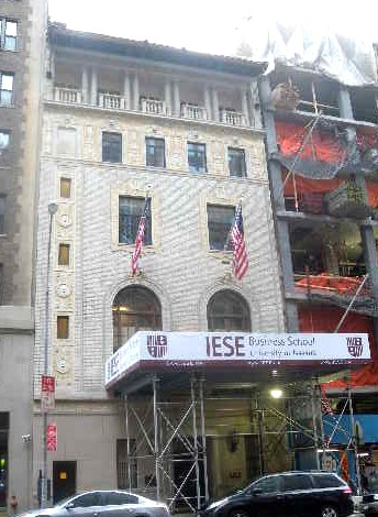 Looking northeast across 57th at new IESE branch in building formerly occupied by CAMI, originally commissioned by Louis H. Chalif (1876–1948) from the brother architects George and Henry Boehm to house his dance studio and Normal School of Dancing.